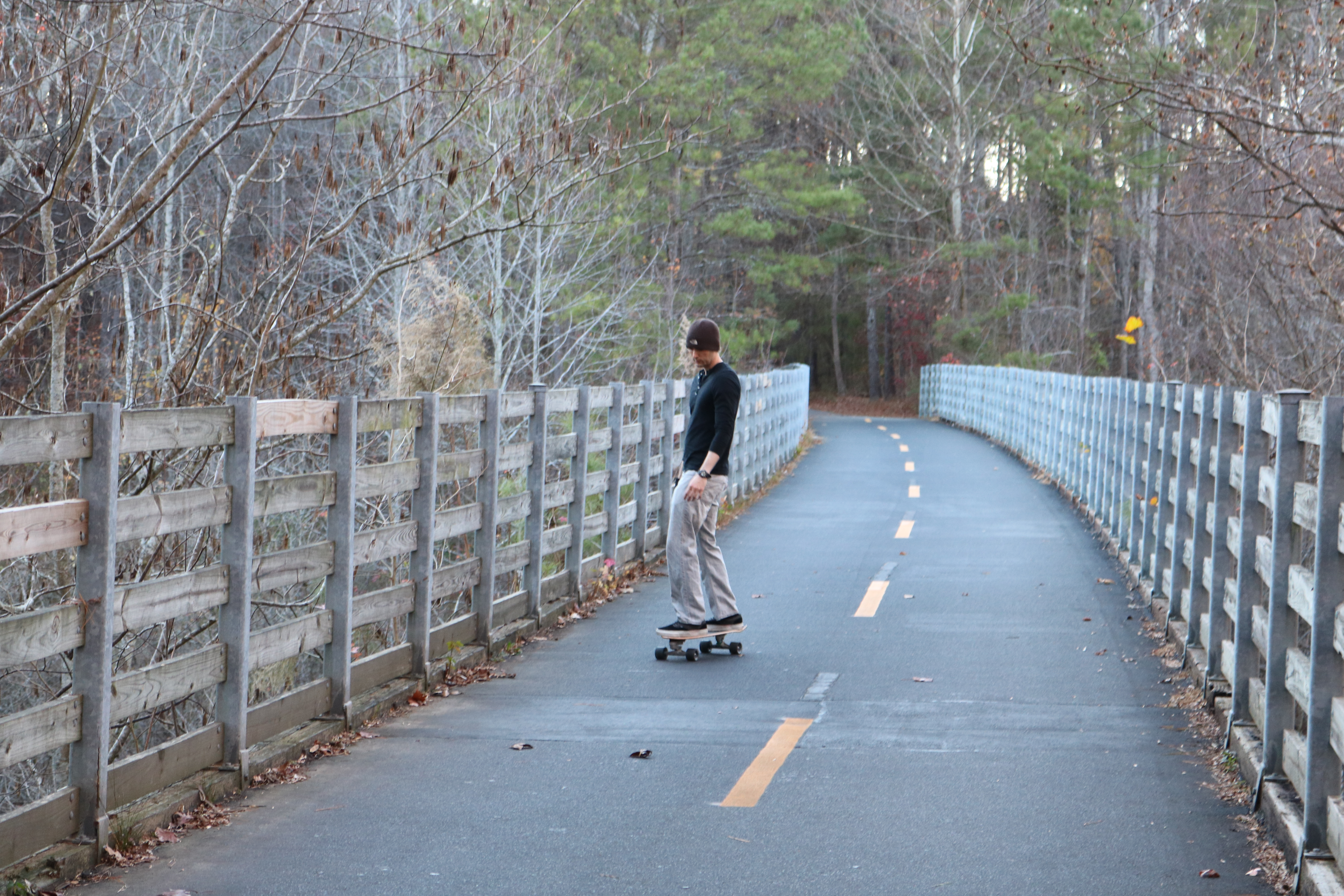 These shots were taken between the bridge over the East West Connector (with the chain-link enclosure) and Nickajack Creek (wooden rails) bridges. If you use these, please credit as "Larry Felton Johnson, Cobb County Courier, licensed under Creative Commons 4.0" You can add a link to here if you like, but my name and the Courier credited are my main concern.